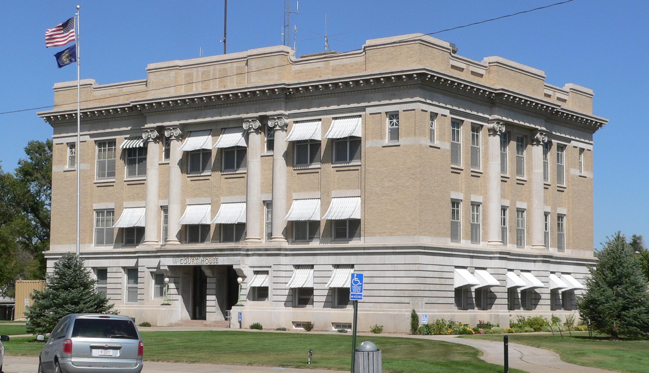 Box Butte County Courthouse on east side of Box Butte Avenue between 5th and 6th Streets in Alliance, Nebraska; seen from the southwest. The cornerstone of the Beaux-Arts building was laid in 1913. The courthouse is listed in the National Register of Historic Places.